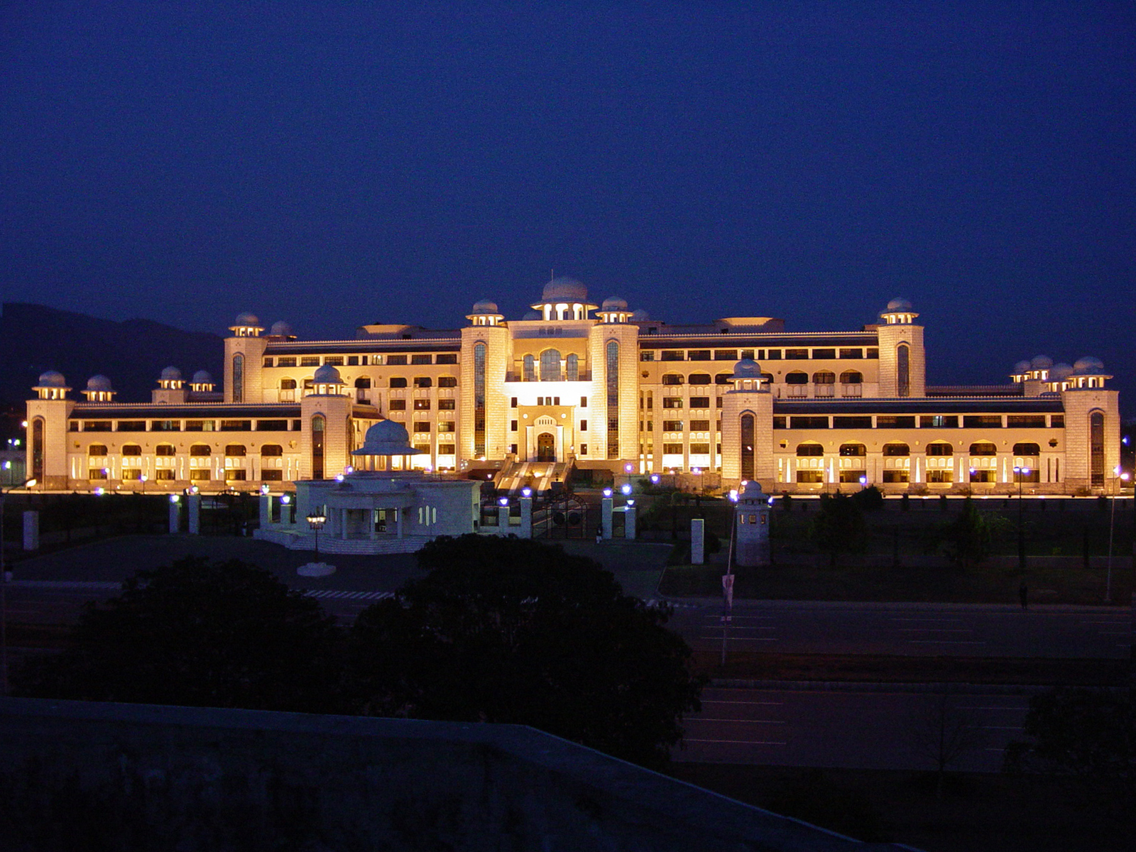 Prime Minister's Secretariat This is a photo of a monument in Pakistan identified as the ICT-11